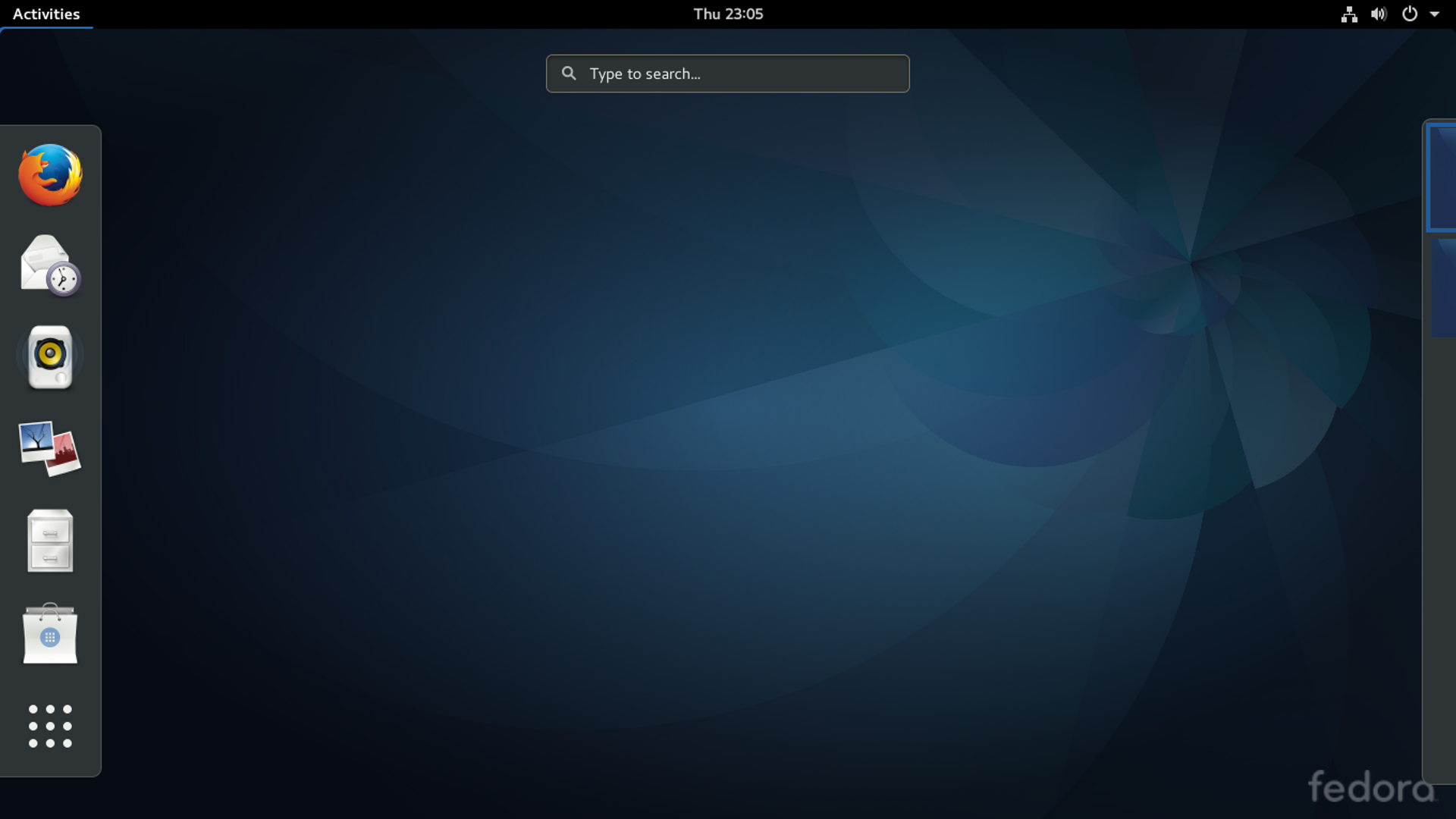 Screenshot of the Fedora 25 Workstation, released on November 22, 2016.